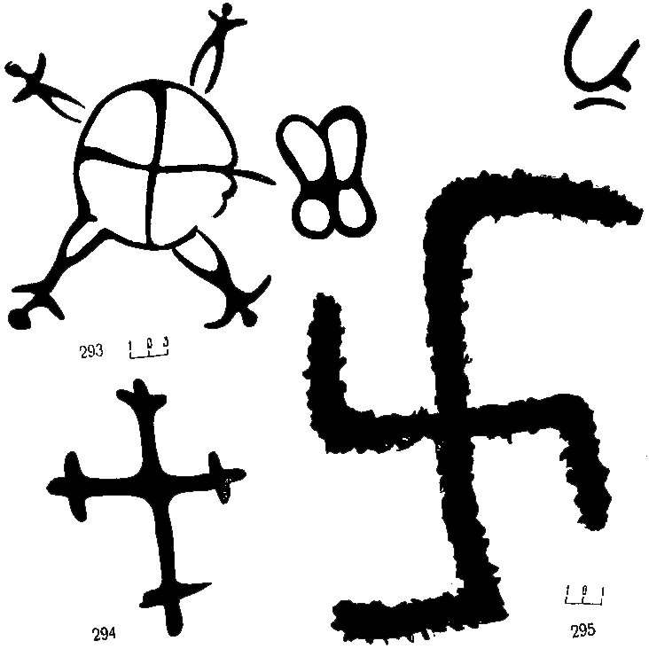 The Archaeological Monuments and Spaciments of Armenia, Volume 6, Armenia, Yerevan, 1971, p. 198